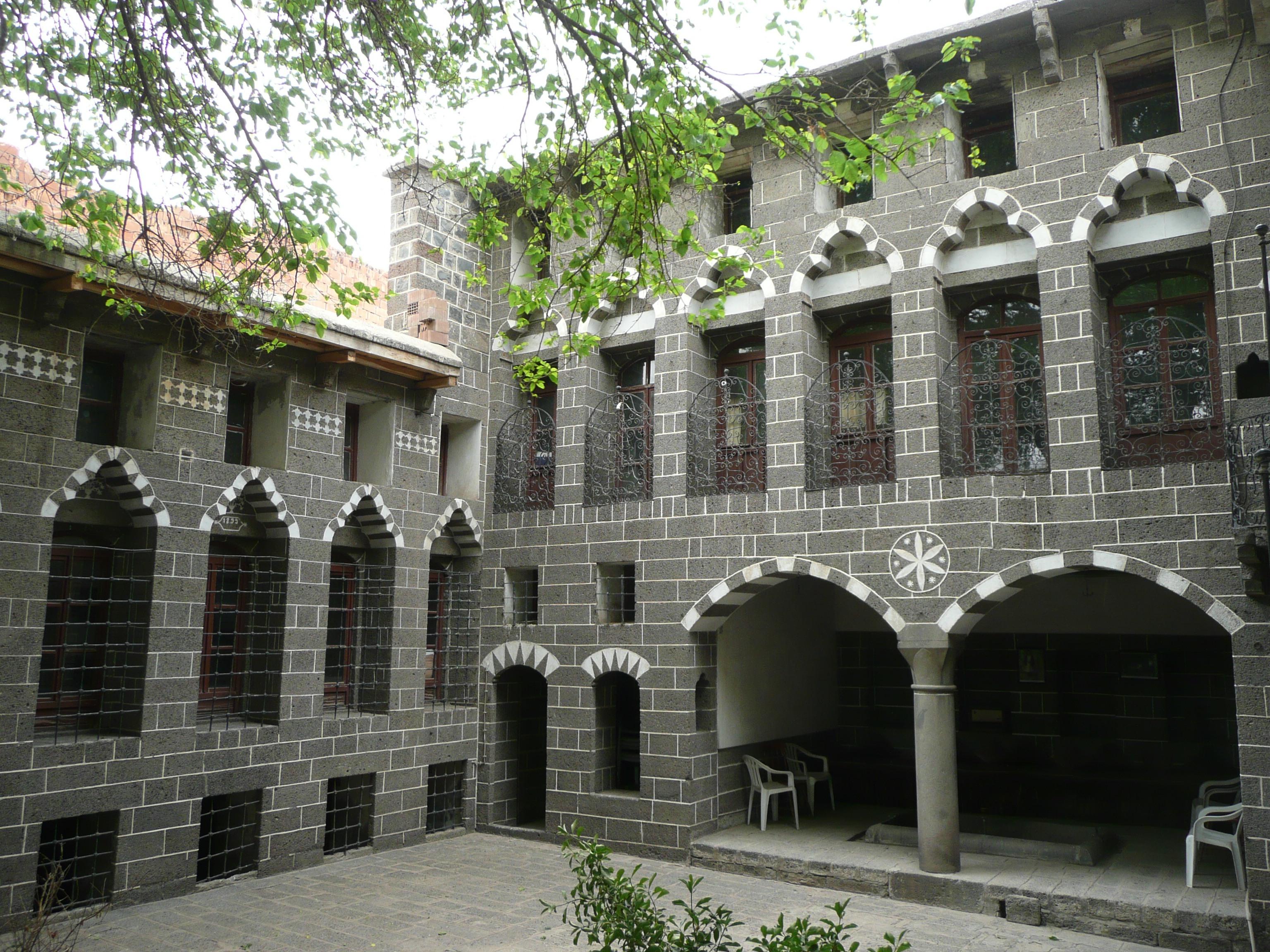 Photographs from Diyarbakir, Turkey